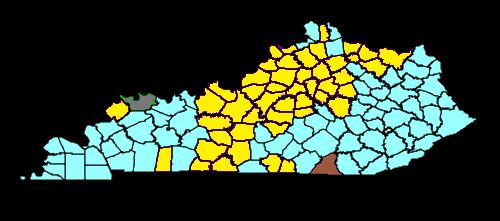 County-by-county results of the 2010 Kentucky primary election for the Democratic nominee to the U.S. Senate. The county carried by James Buckmaster is in gray. The county carried by Darlene Price is in brown. The counties carried by Dan Mongiardo are in blue. The counties carried by Jack Conway are in yellow.